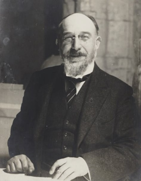 Erik Satie by Man Ray, circa 1921